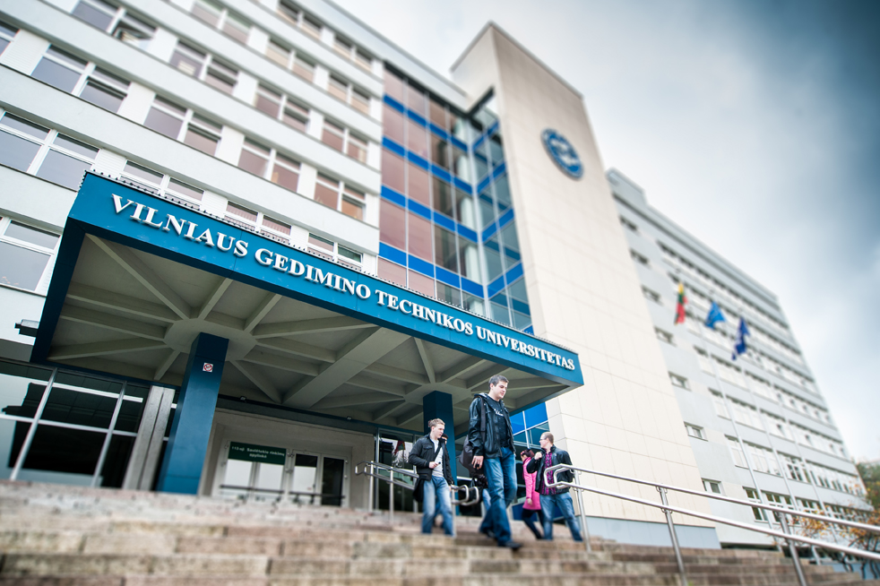 VGTU Saulėtekis